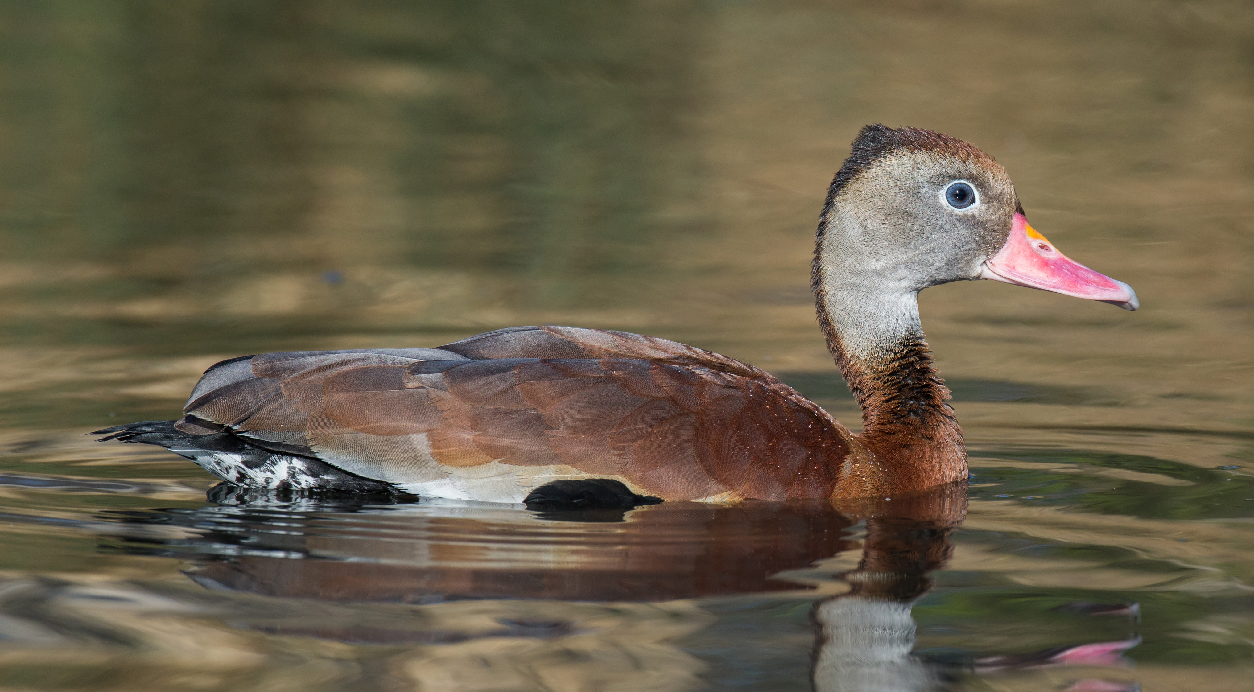 Dendrocygna autumnalis, or Black-bellied Whistling Duck, at the London Wetland Centre in Barnes, London, UK.